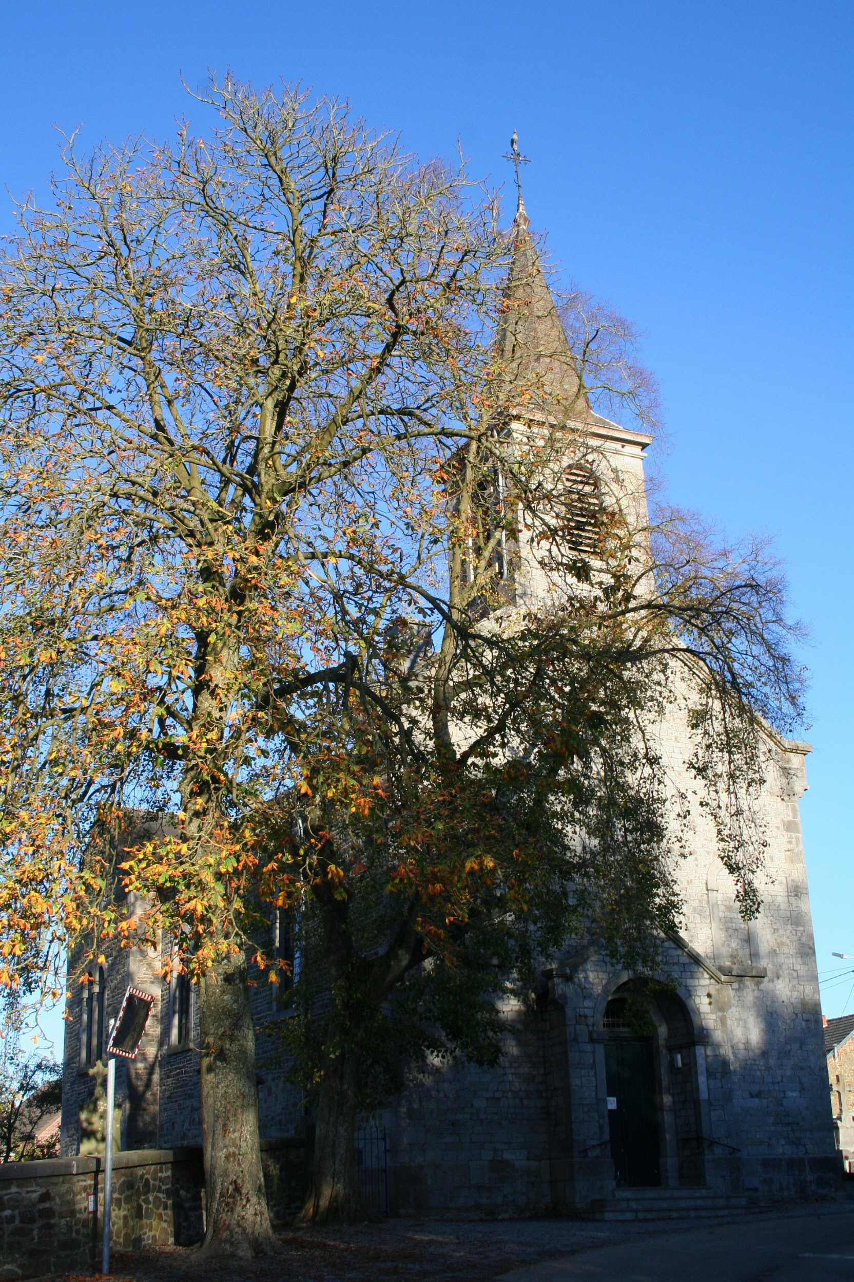 Harsin (Chavanne) (Belgium), the churche of Saint Catherine.